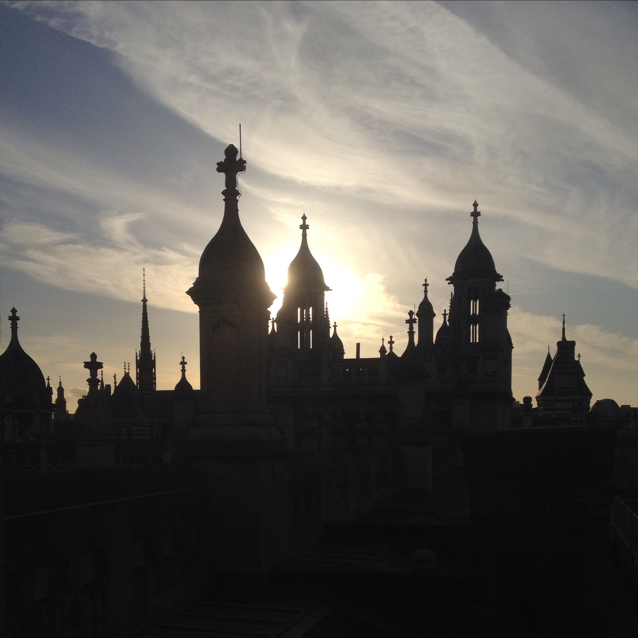 At sunset, this impeccable view of the rooftops of old and listed London buildings beholds those occupying the study carrels at the Clock Tower of The Maughan Library, King's College London.